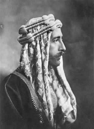 "Portrait of Emir Feisal, son of the Arab King, Hussein, and leader of the Hedjaz Force, which operated with the British in Syria throughout the campaign."